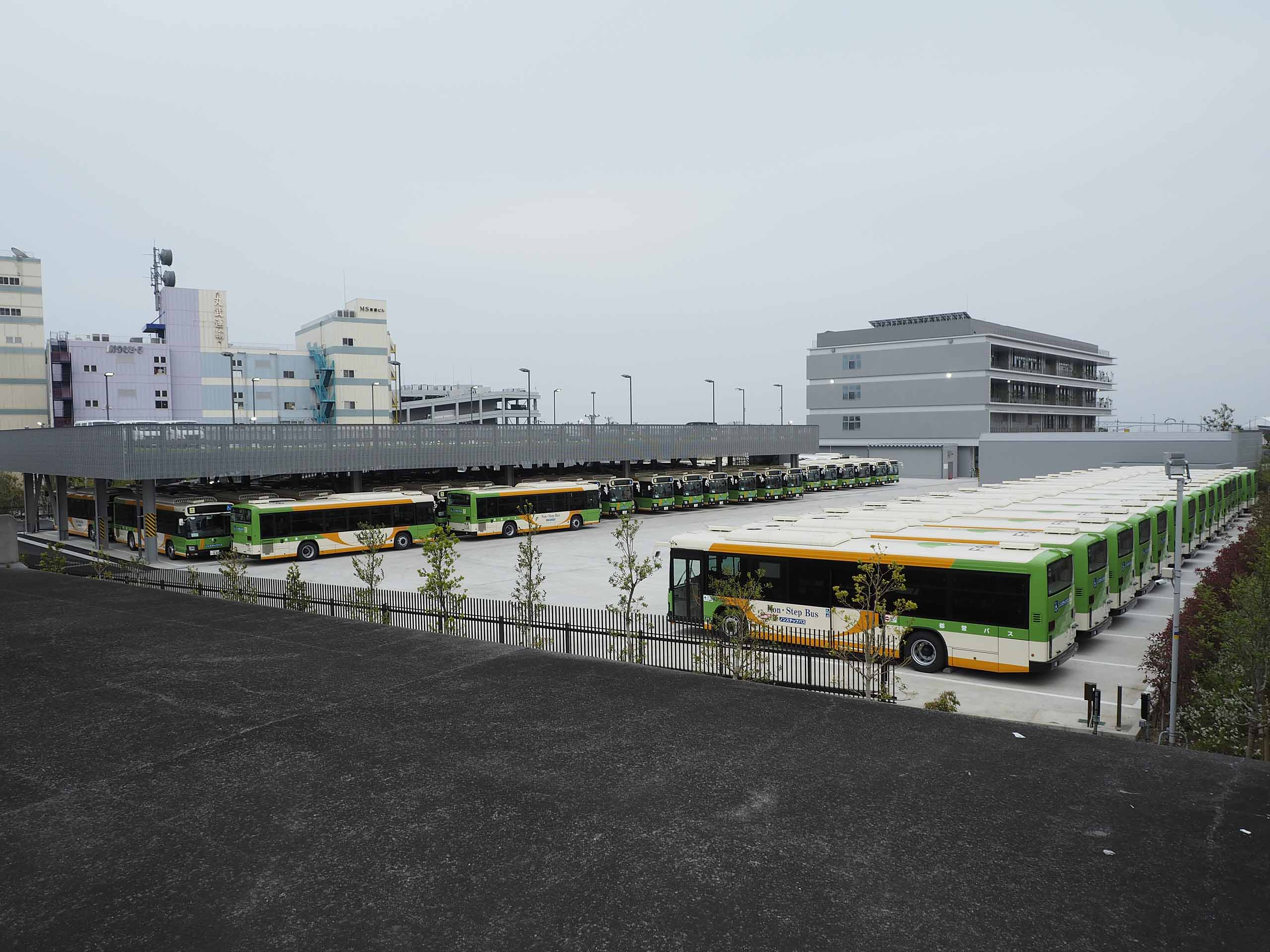 Ariake Depot of Tokyo Metropolitan Government Municipal Bus (aka Toei Bus), view from Kakunori Bridge (South Crossing).